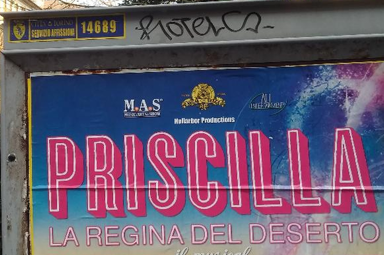 Piscilla, Queen of the desert - musical-hall version, Torin (Italy), 2018